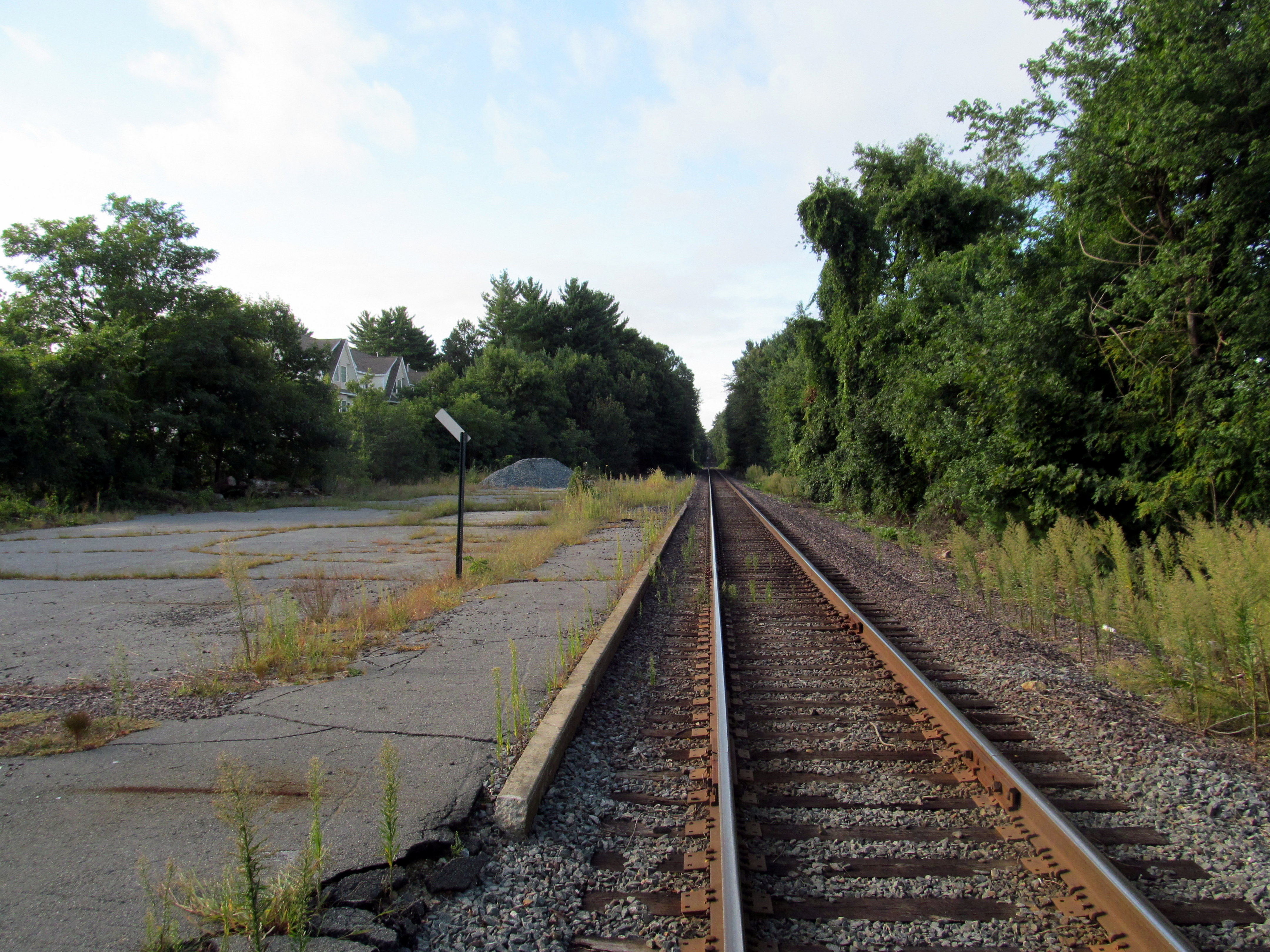 Former platform of Salem Street station, viewed in September 2014